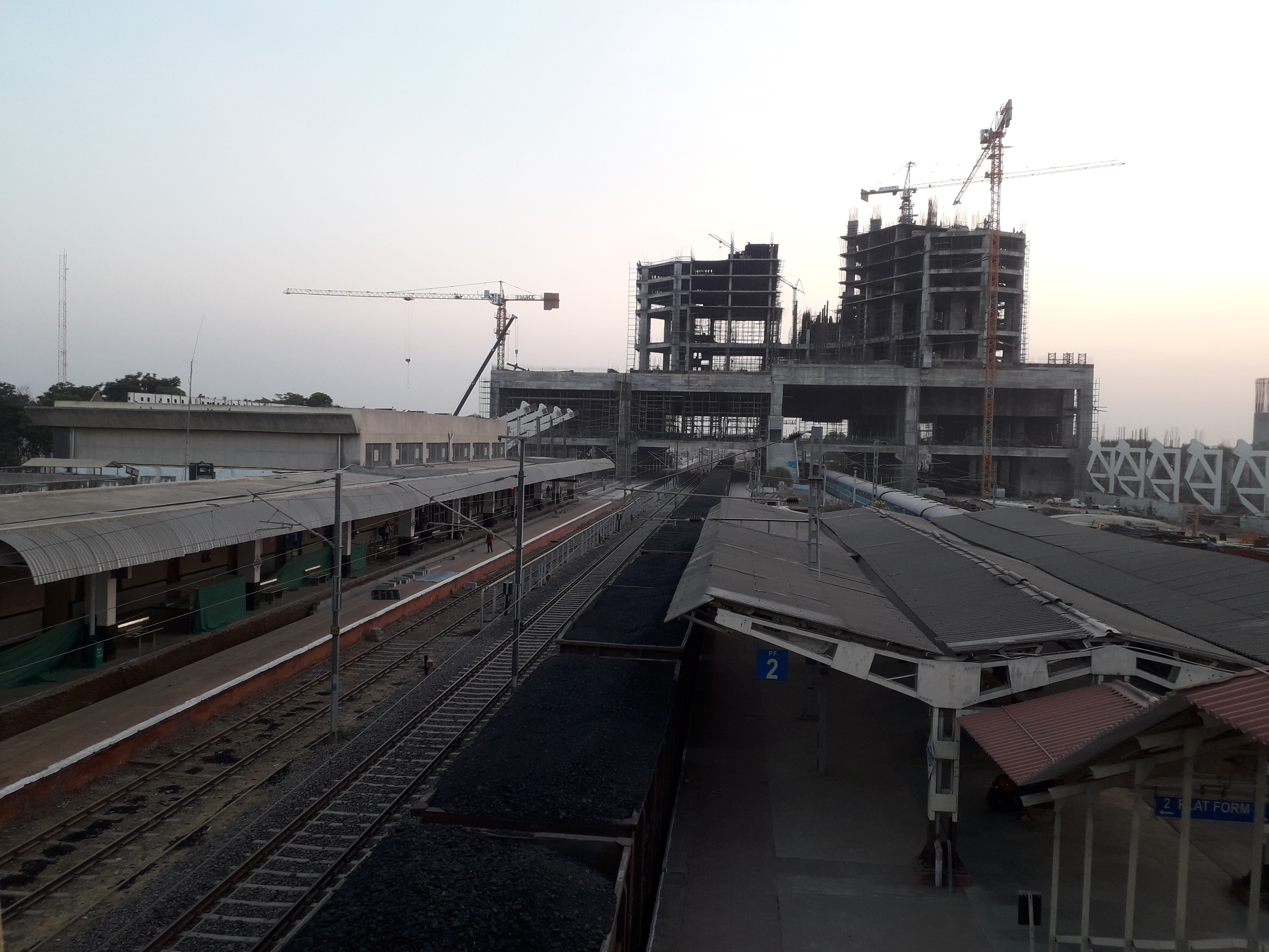 Gandhinagar Capital Gujarat - Overview of station